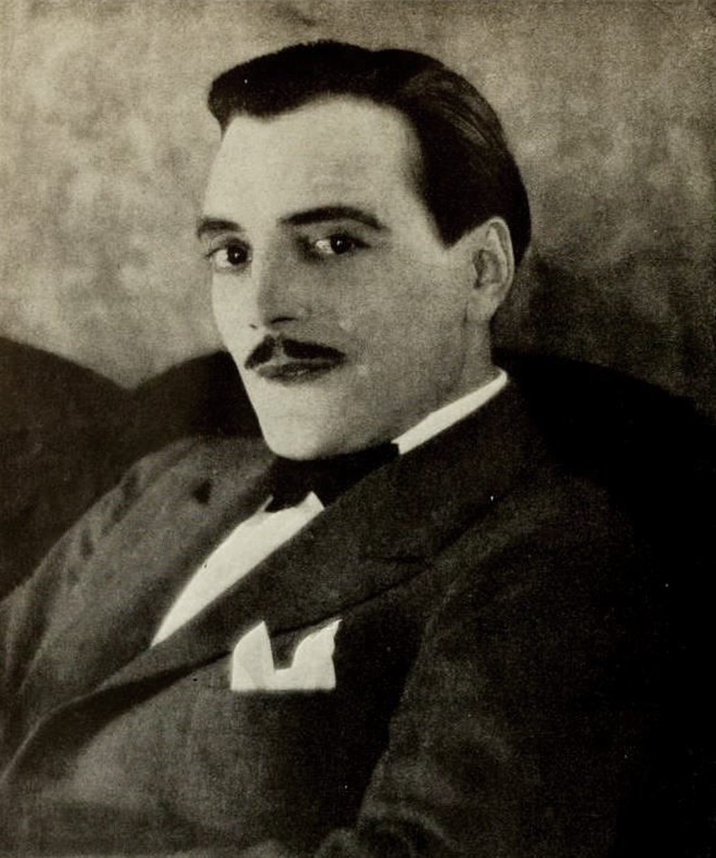 Actor Max Linder, on page 72 of the February 1922 Photoplay.